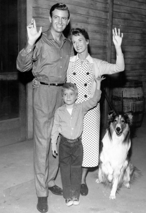 1957 photo of the cast when the Martins take over the farm. Pictured are: Jon Shepodd (Paul Martin), Cloris Leachman (Ruth Martin), Jon Provost (Timmy) and Lassie.